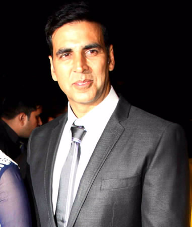 Akshay Kumar at Maneka Gandhi host a grand premiere for 'Entertainment' in Delhi